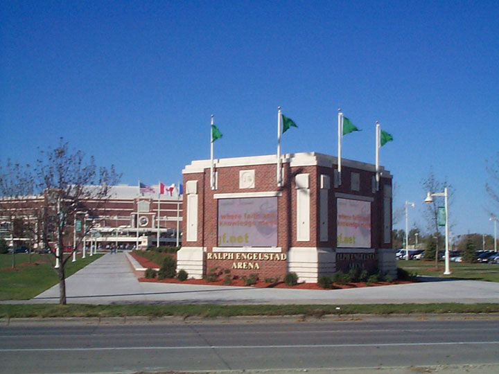 The front entrance to Ralph Englested Arena in Grand Forks, ND.